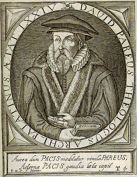 Portrait of David Pareus